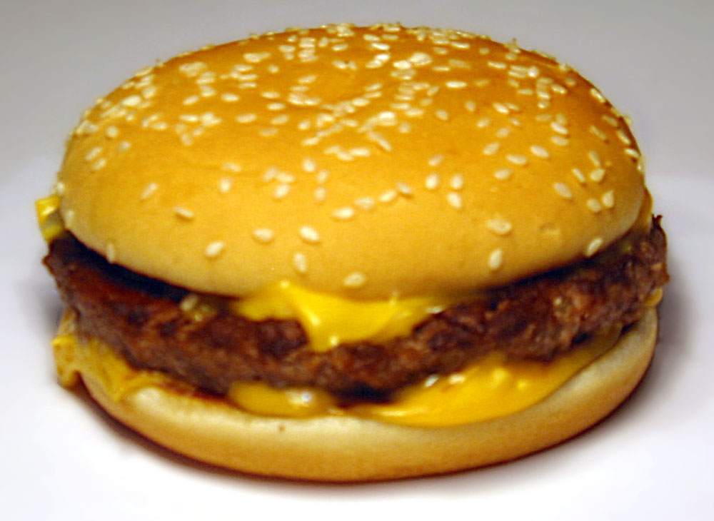 Photo of a McDonald's Quarter Pounder (Royale) with Cheese.